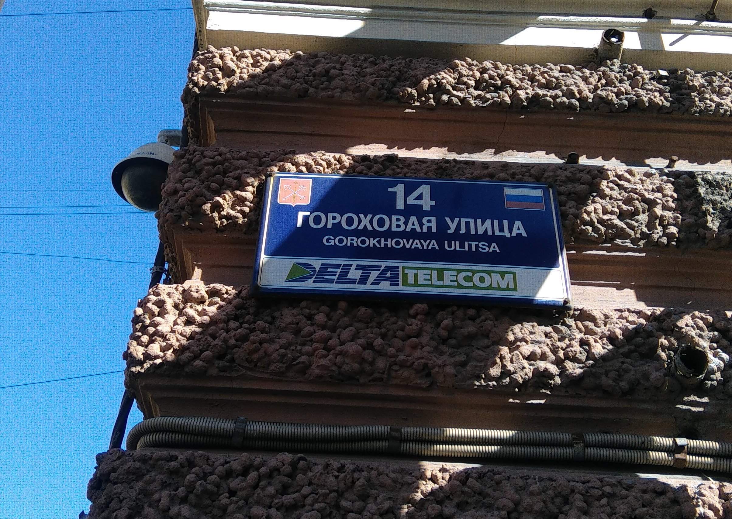 Delta Telecom street table